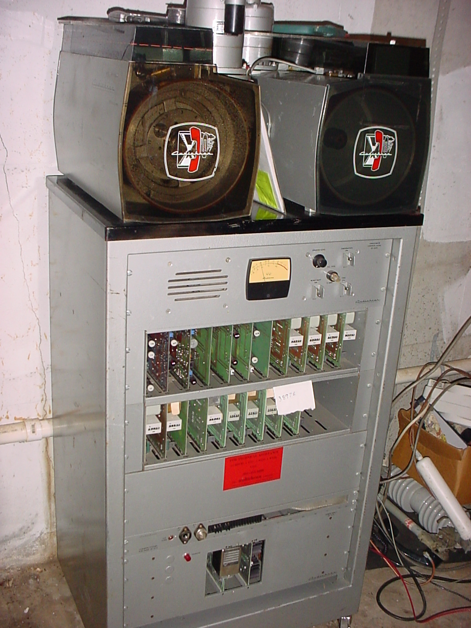 Photo of 1972 Audichron STM-100-T Time and Temp Machine